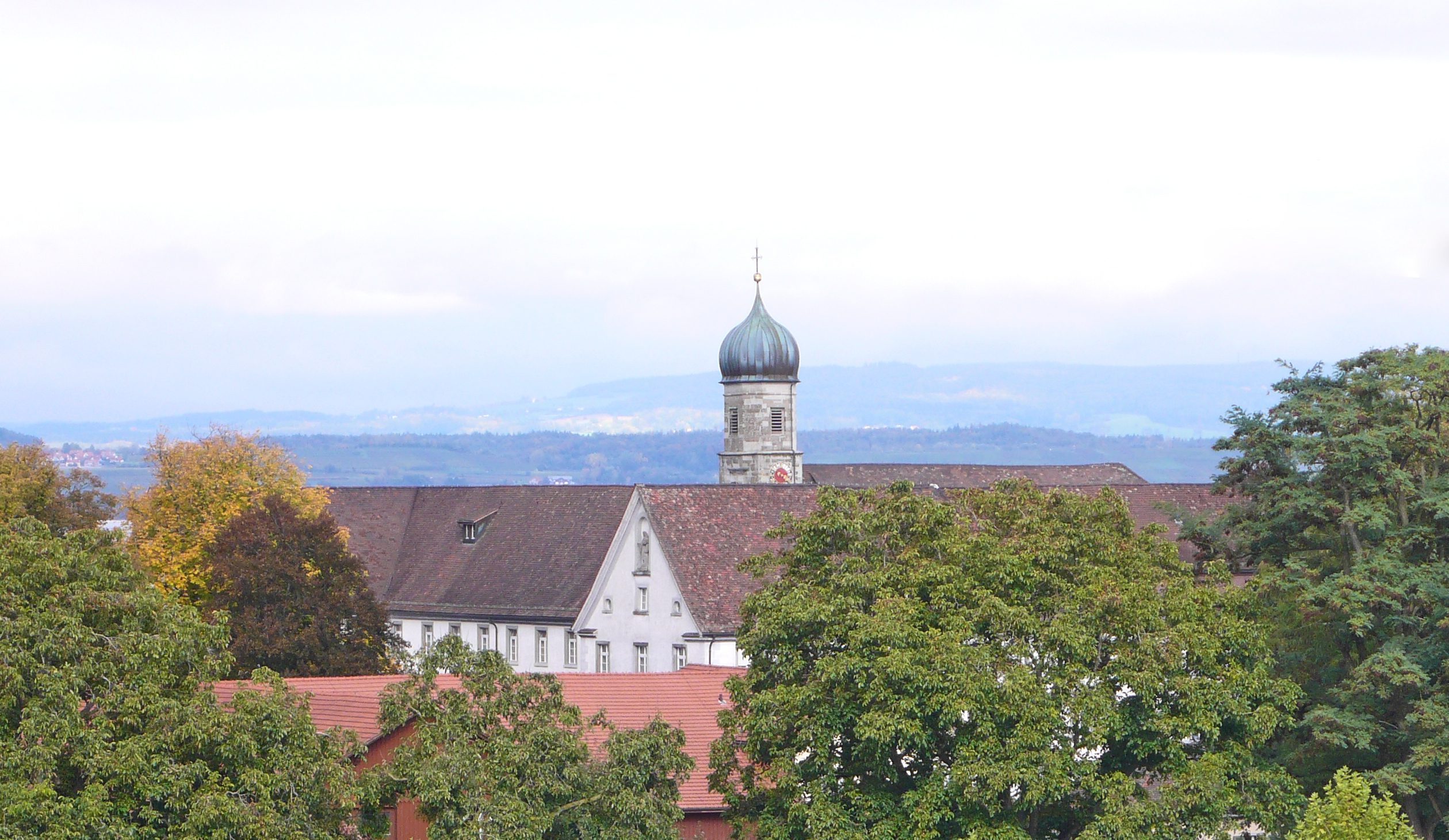 Former monastery of Münsterlingen, Switzerland.